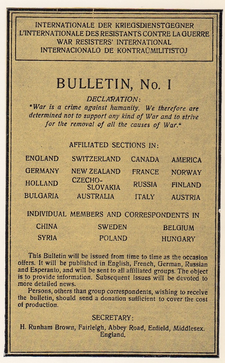 Picture: The first edition of the WRI's (War Resisters' International) journal (1923), first called "Bulletin", later "War Resister", and since 1962 "War Resistance".